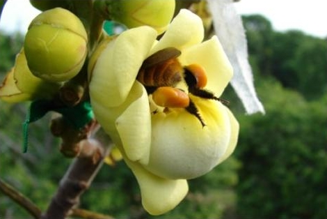 Eulaema cingulata female: Approach to flowers of Brazil nut (Bertholletia excelsa) by distinct bee species in a commercial cultivation in the county of Itacoatiara, state of Amazonas, Brazil, 2007